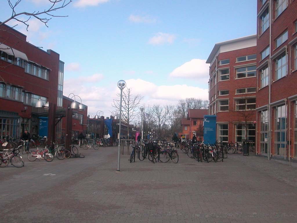 Main concourse (“Corzon”) at Linköping University, Linköping, Sweden. Taken near the southernmost point, looking north. Visible buildings are D Building and Zenit on the left, and Key and Origo on the right.